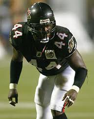 Derrick Ford Ottawa Renegages